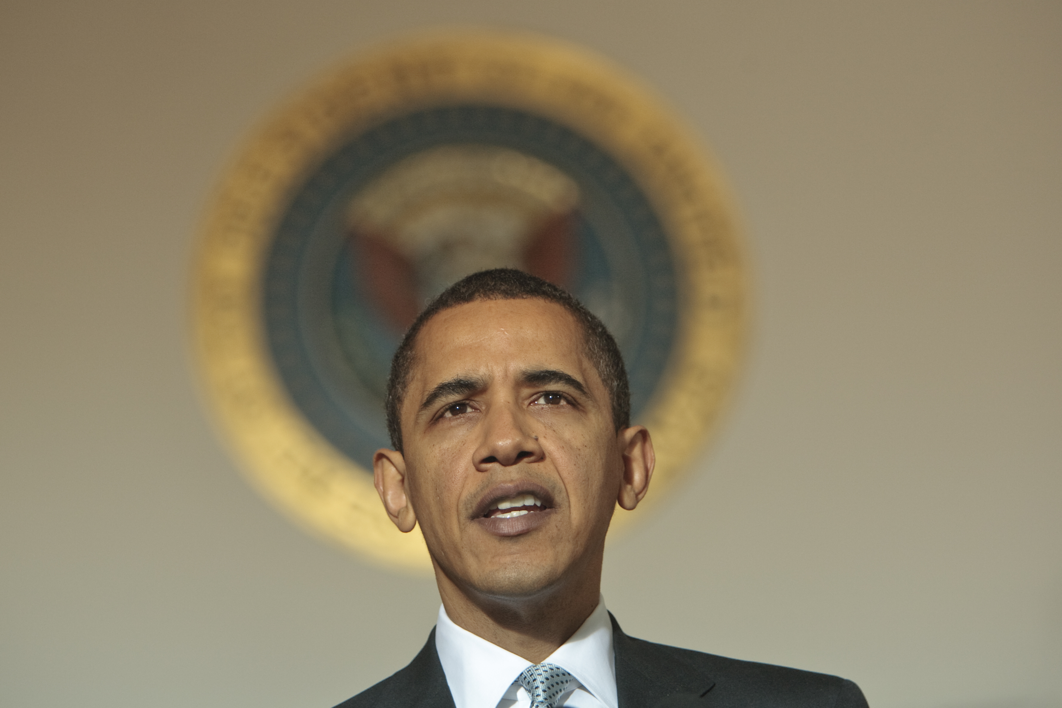 President Barack Obama delivers remarks about the American automotive industry in the Grand Foyer of the White House.